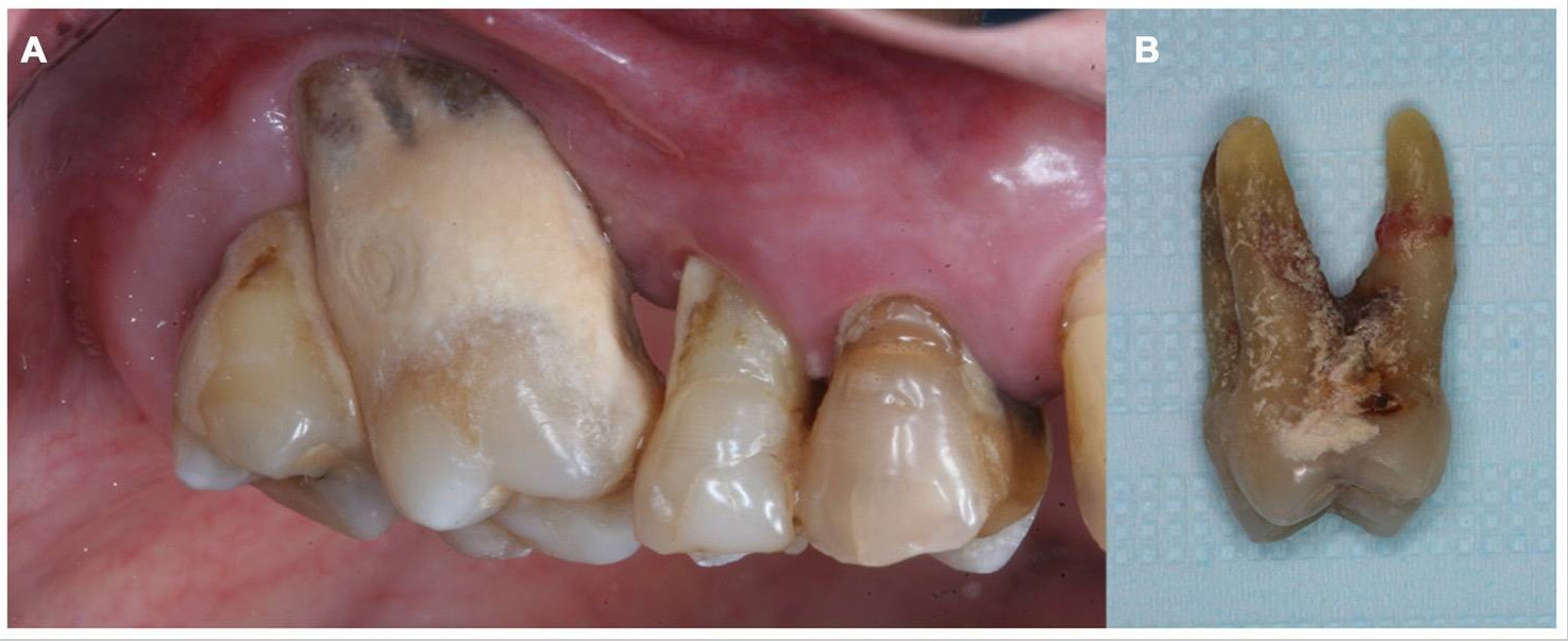 (A) Teeth from a chronic periodontal patient presented dental calculus, gingival recession and attachment loss. (B) Molar tooth showed in (A) extracted due to advanced periodontal disease involvement.